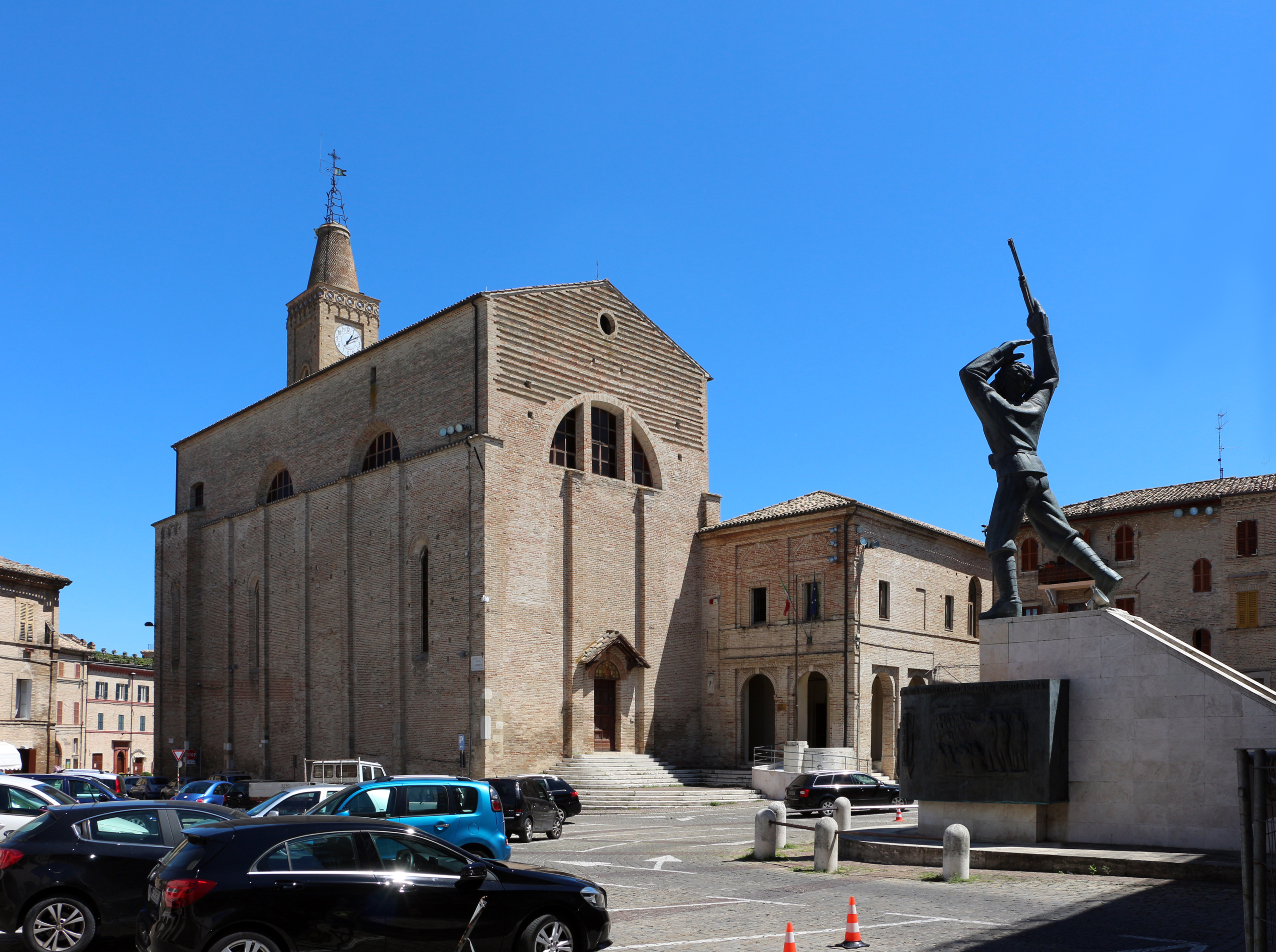 Corridonia